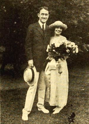 Wedding photograph of John Emerson and Anita Loos, on page 1055 of the June 28, 1919 Moving Picture World. The ceremony took place at 5 p.m. at the summer home of Norma Talmadge at Bayside, Long Island. It was attended by a few intimate friends, and was conducted by Judge Frederic Kernochan.